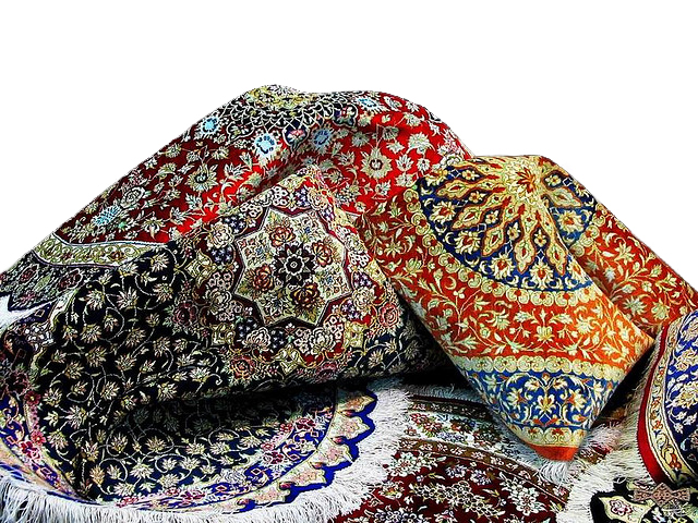 Samples of handcrafted silk rugs woven in Maragha, northwest Iran.